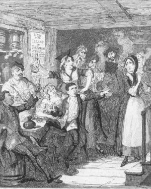 Jack Sheppard gets drunk from the novel Jack Sheppard by Ainsworth